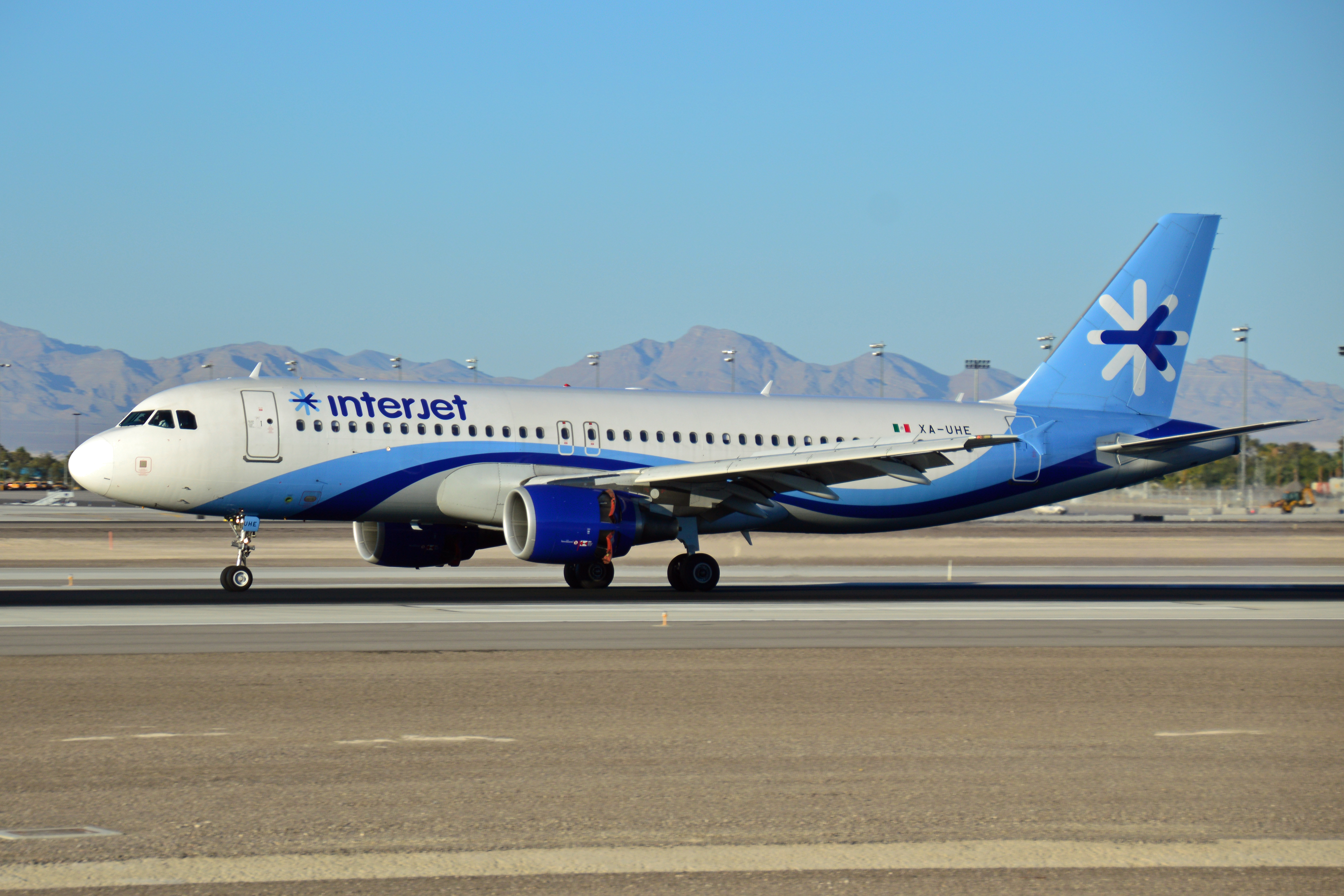 XA-UHE_edited-1 Boeing A320-214